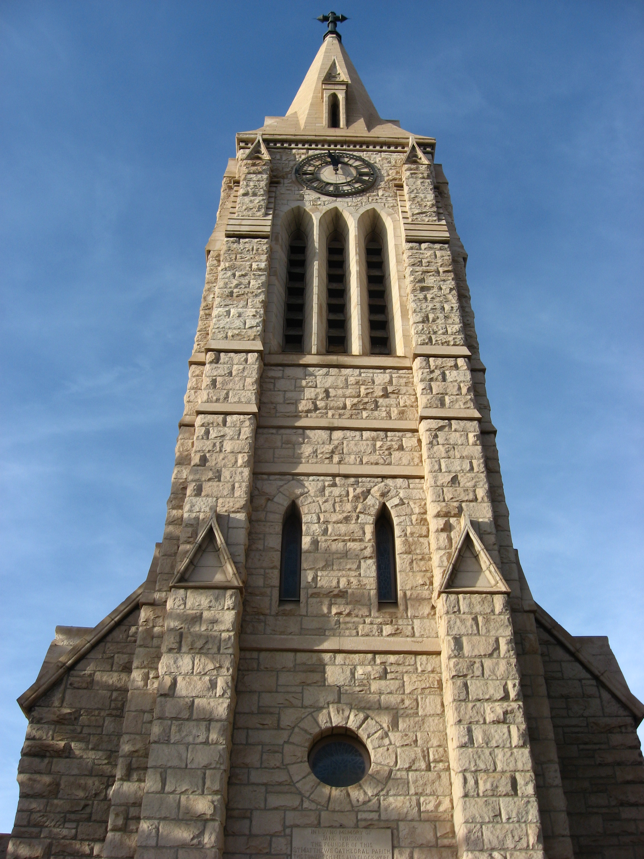 Tower view of St. Matthew's Cathedral, located at 104 S. Fourth Street in Laramie, Wyoming, United States. Built in 1896, the cathedral is the seat of the Episcopal Diocese of Wyoming. It has been listed on the National Register of Historic Places as "St. Matthew's Cathedral Close" since 1984. The church is also a contributing property to the Register-listed Laramie Downtown Historic District.